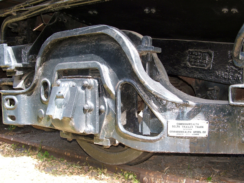 Detail view of Victorian Railways X class locomotive Delta trailing truck, with plate showing Commonwealth Steel Co. patent information.